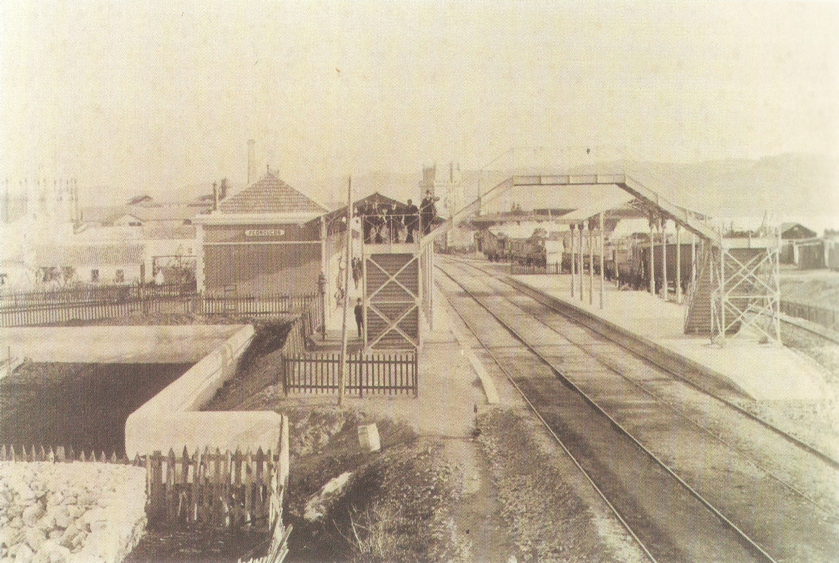 Pedrouços Railway Station, on the Cascais Railway, in Portugal.